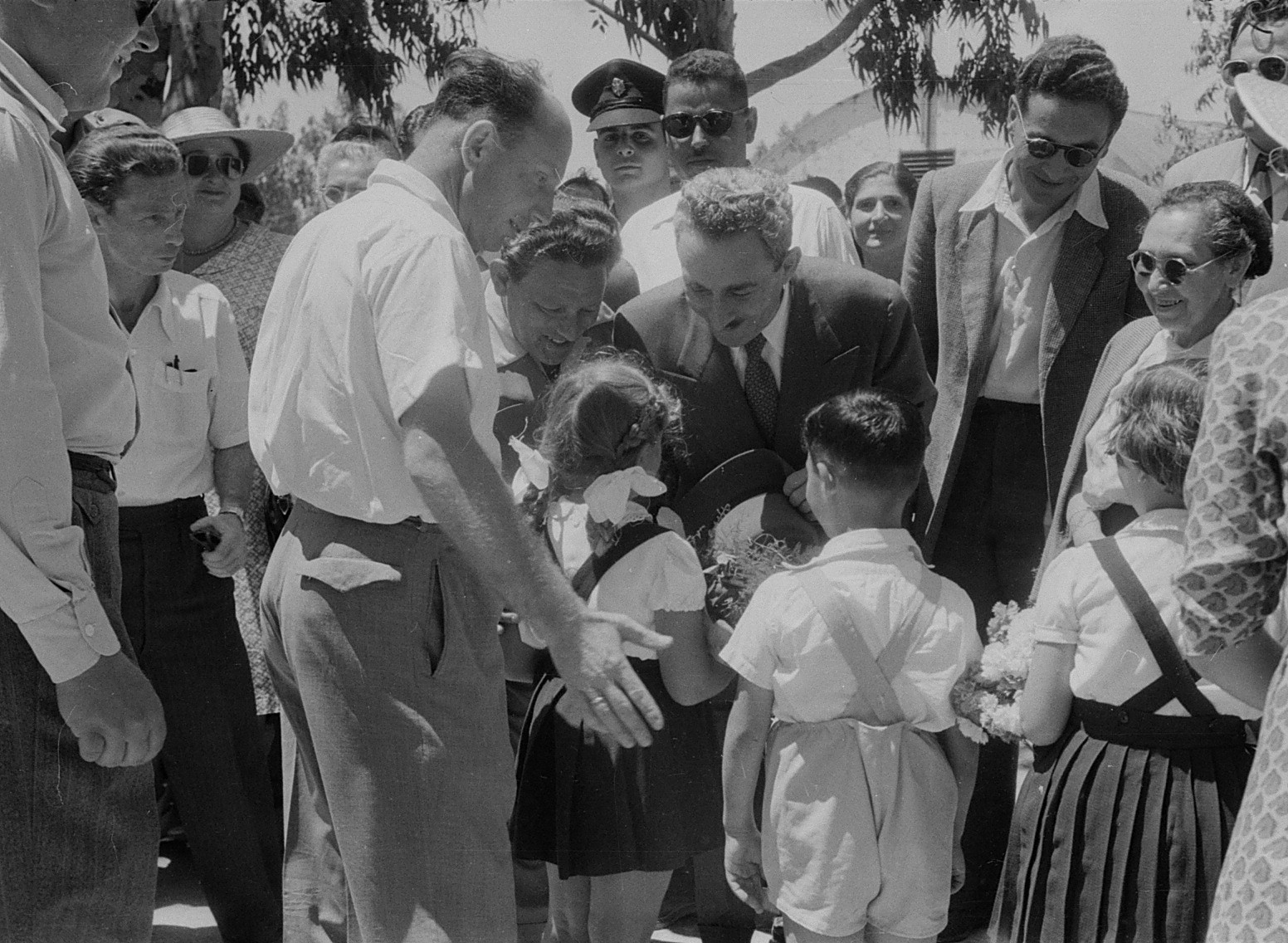 People of Israel